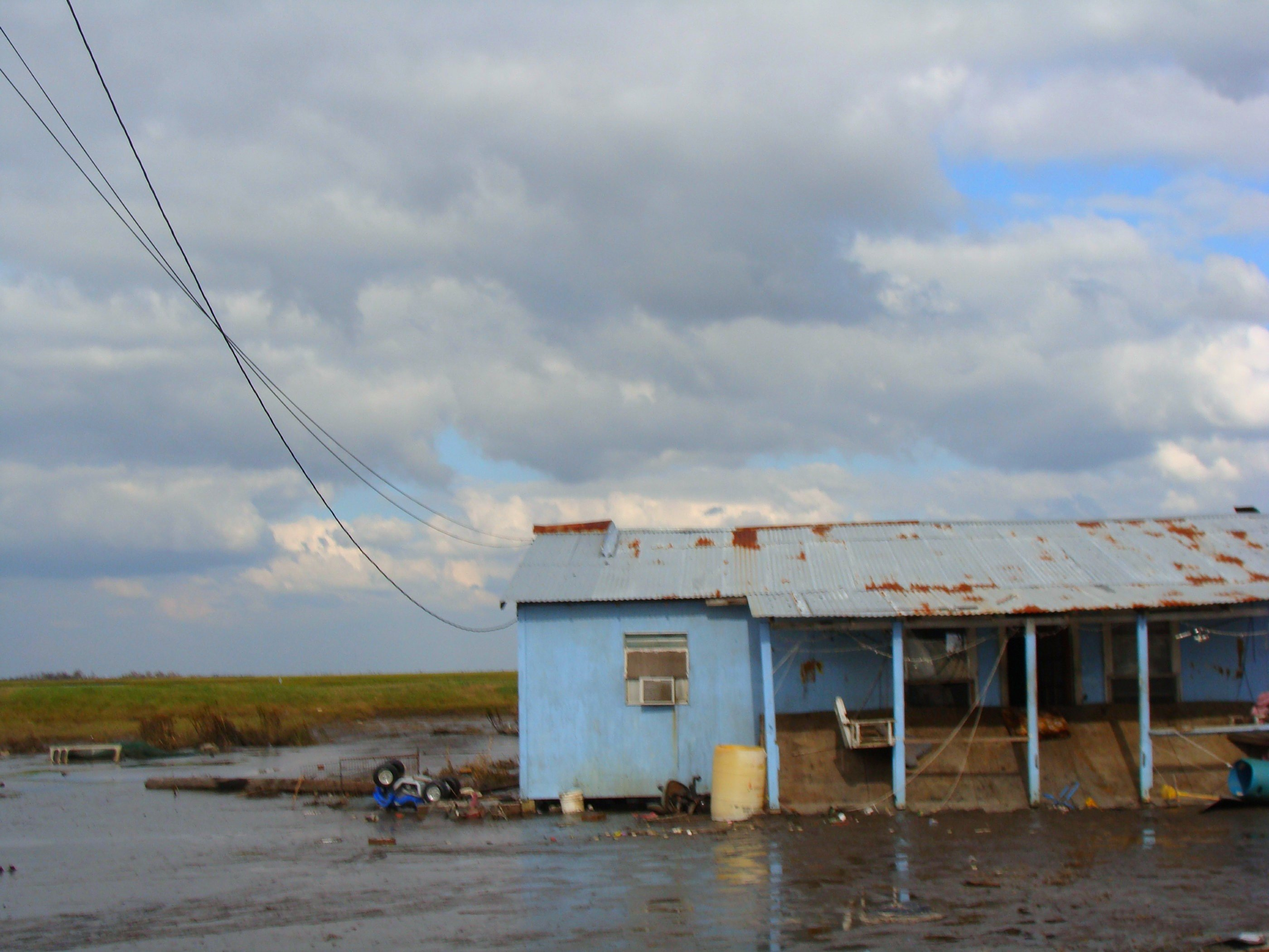 Isle De Jean Charles, Terrebonne Parish, Louisiana, after Hurricane Gustav. "This was a front yard last week."